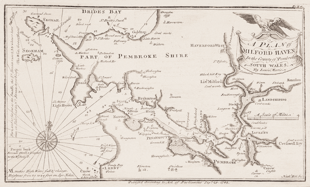 Lewis Morris' coastal charts of Wales. In 1748 Admiralty encouraged the publication of Morris private survey of the Welsh coast and individual harbour plans. They were published privately that September.